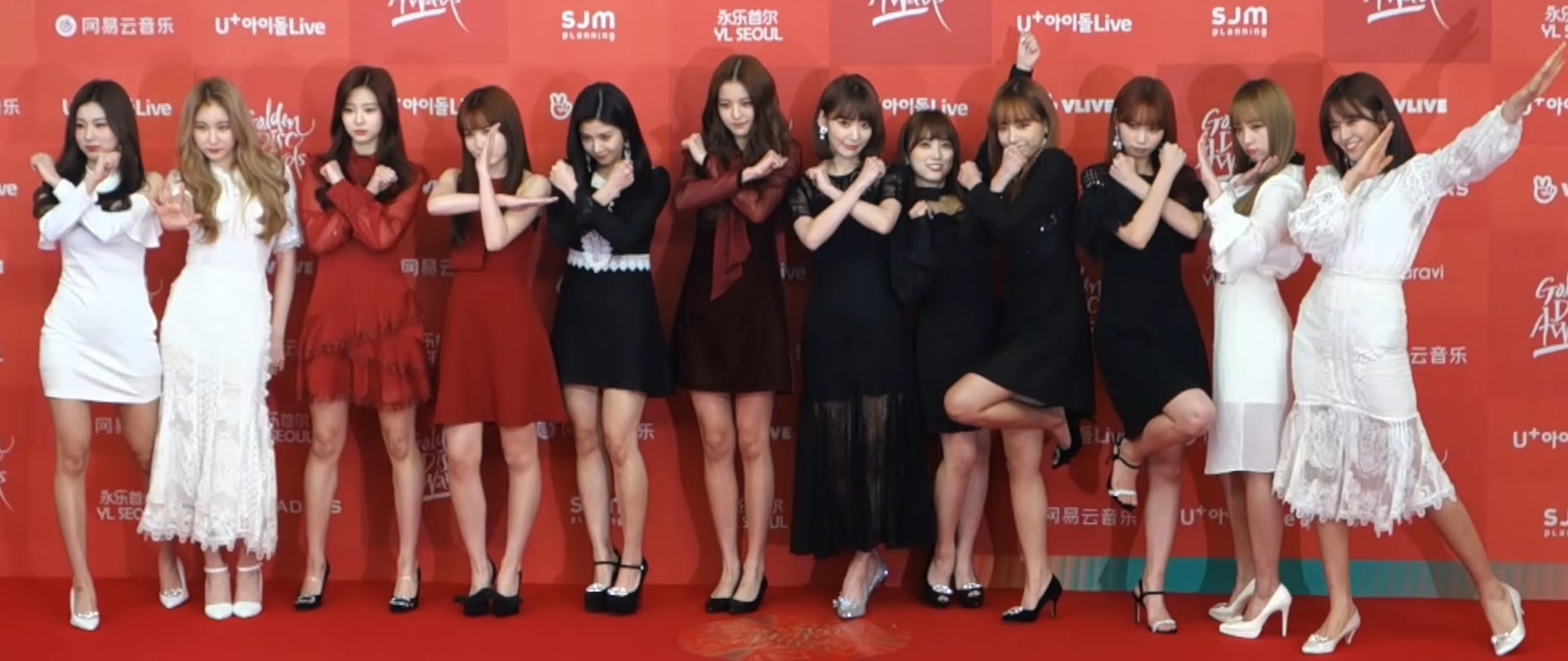 IZ*ONE at the red carpet ceremony of the 33rd Golden Disk Awards held at Goguryeo Sky Dome on January 6, 2019.